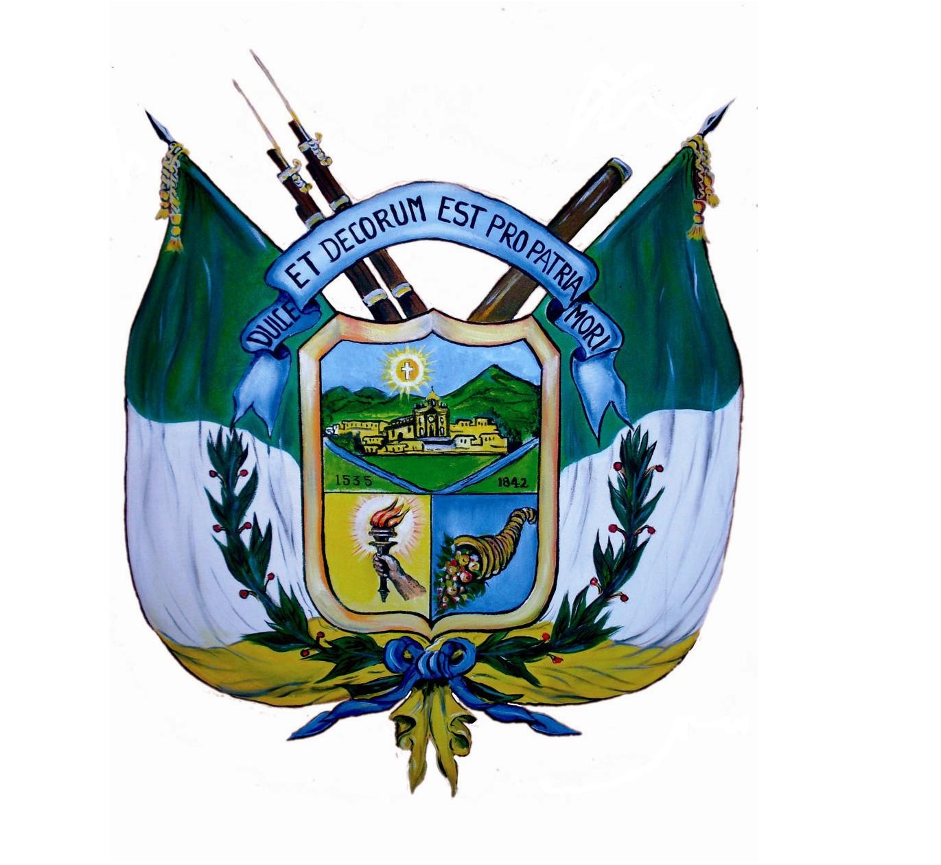 escudo timbio